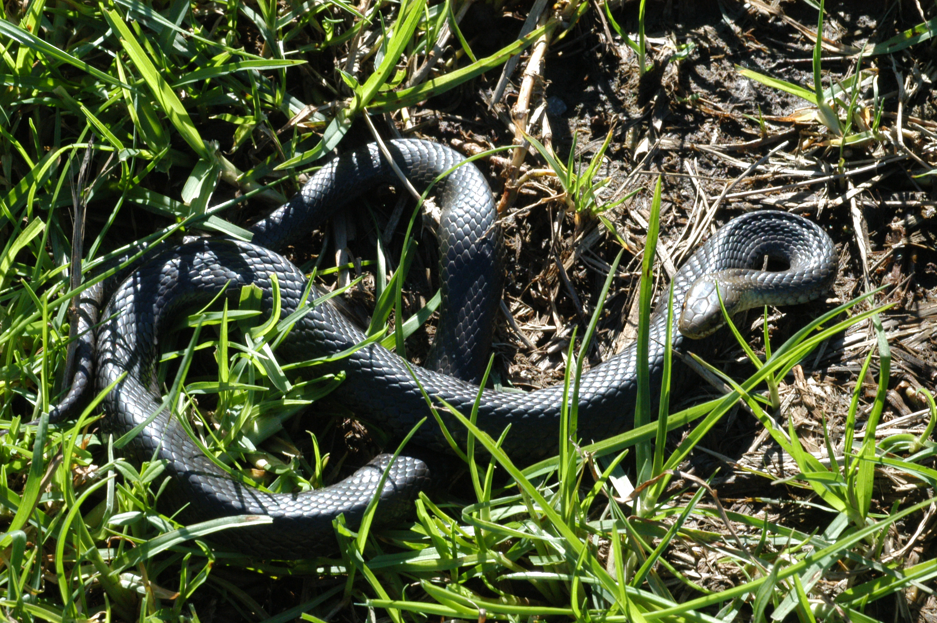 Black-bellied Swamp Snake (Hemiaspis signata)